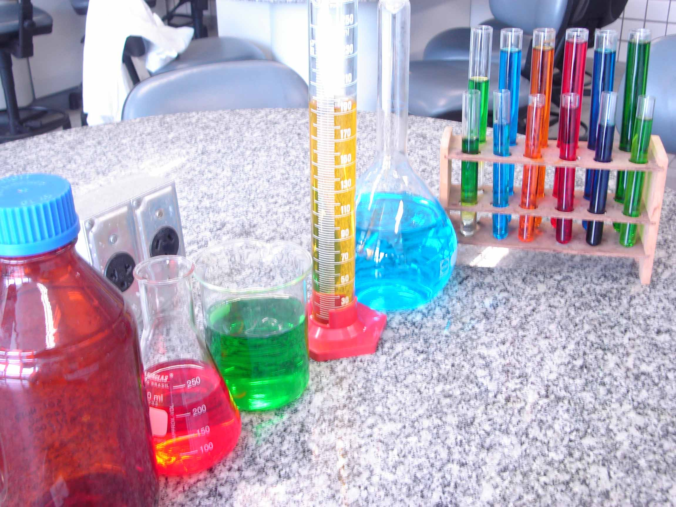 Glass laboratory